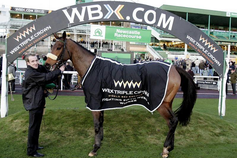 This is a photo I took at a race in 2007